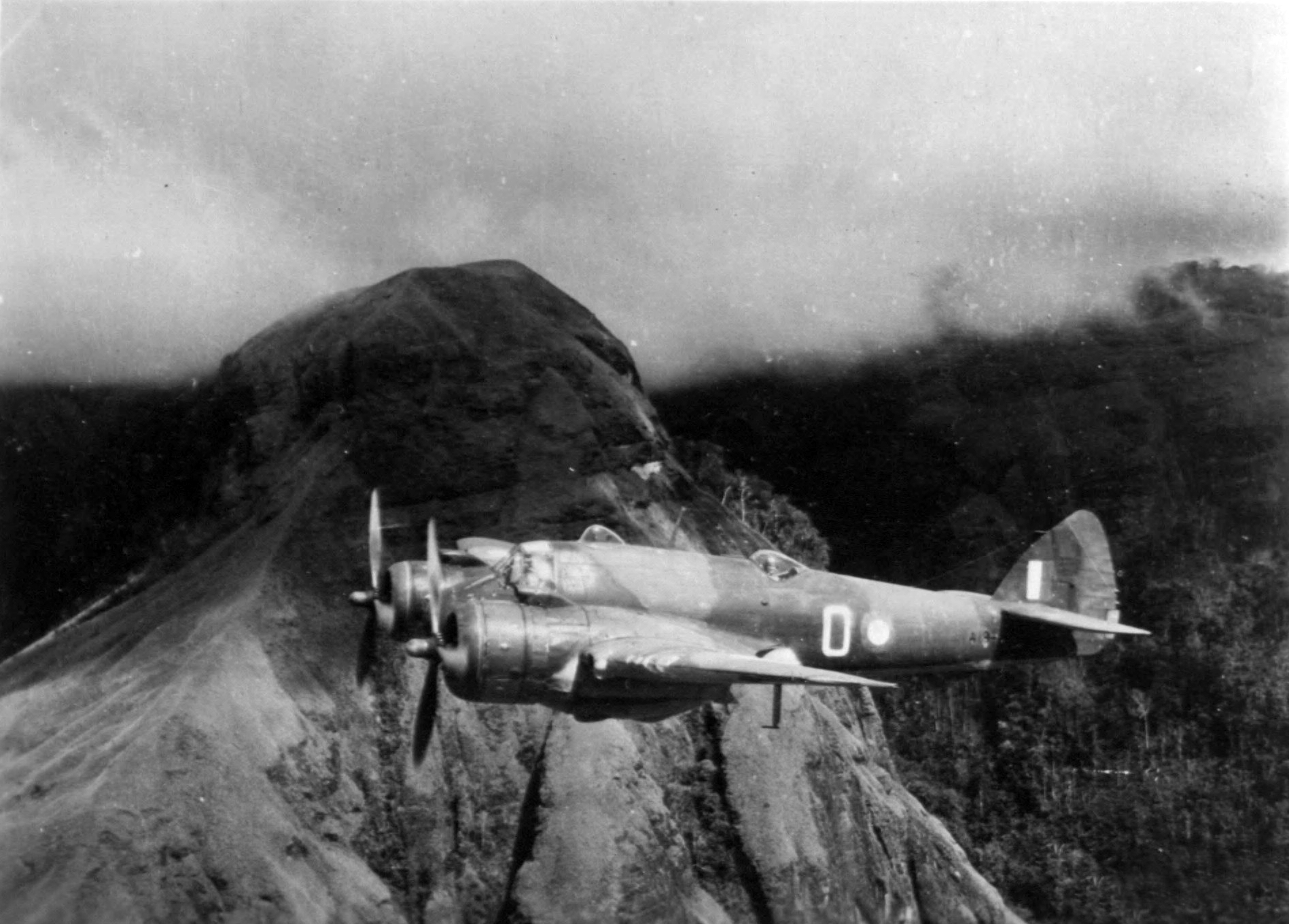 Australian War Memorial (AWM) catalog number OG0001 Sourced from: Copyright: The AWM record for this photo states that the copyright status is 'clear'. The photo was taken in 1942. Higher resolution images may be ordered through the AWM (Source: email from the AWM to Nick Dowling 6 January 2006). AWM Caption: NEW GUINEA. C. 1942. BEAUFIGHTER AIRCRAFT OF NO. 30 SQUADRON RAAF (PILOT FLYING OFFICER R. J. BRAZENOR; OBSERVER SERGEANT F. B. ANDERSON) IN FLIGHT CLOSE TO A ROCKY OUTCROP IN A VALLEY IN THE OWEN STANLEY RANGE DURING AN OPERATION IN LATE 1942. THE PHOTOGRAPH WAS TAKEN BY SERGEANT W. B. BALL IN AN ACCOMPANYING BEAUFIGHTER. The copyright has expired on this image. Higher resolution versions of this image may be ordered through the AWM Website at [1]